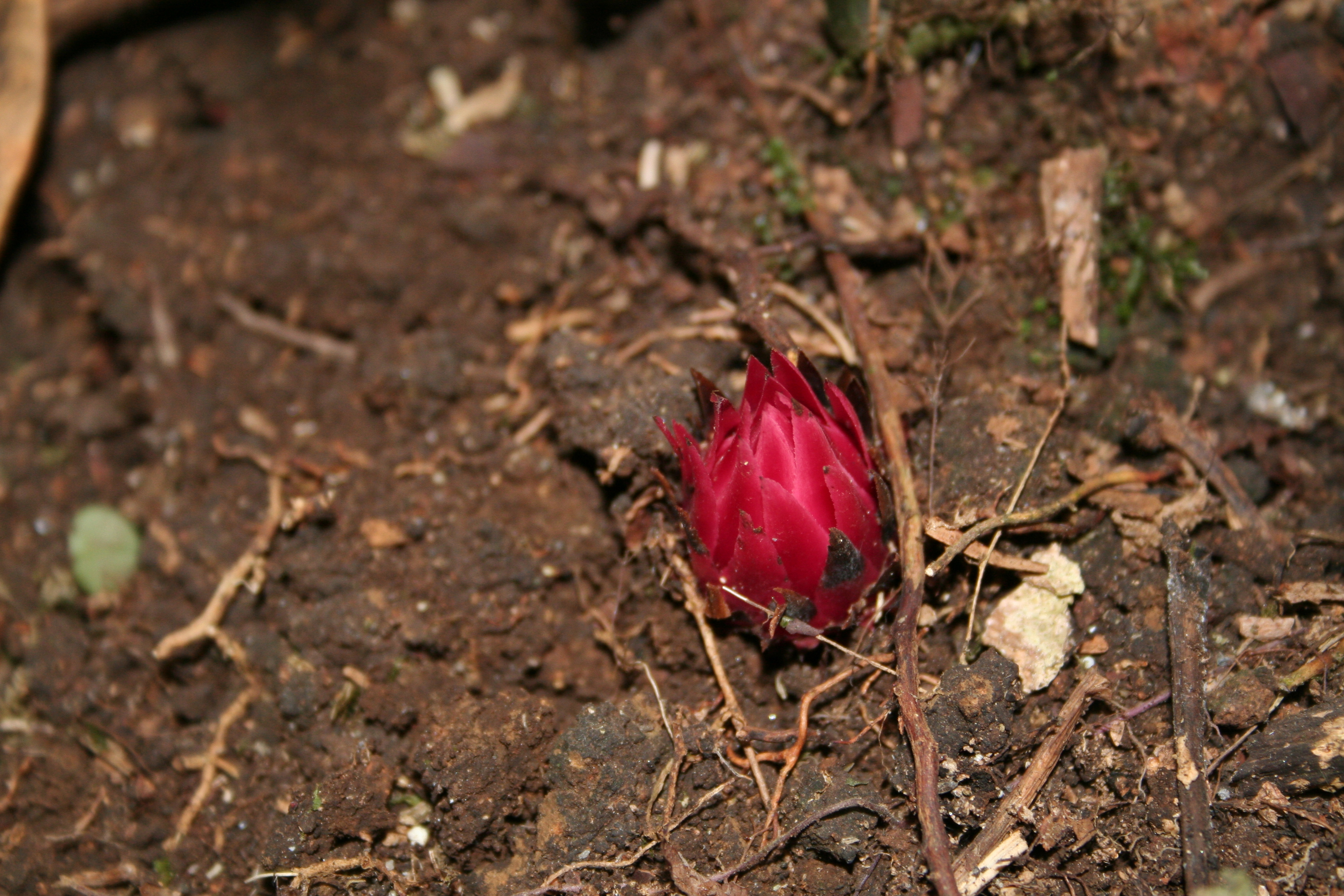 Thonningia sanguinea, Mt. Cameroon in Rain forest